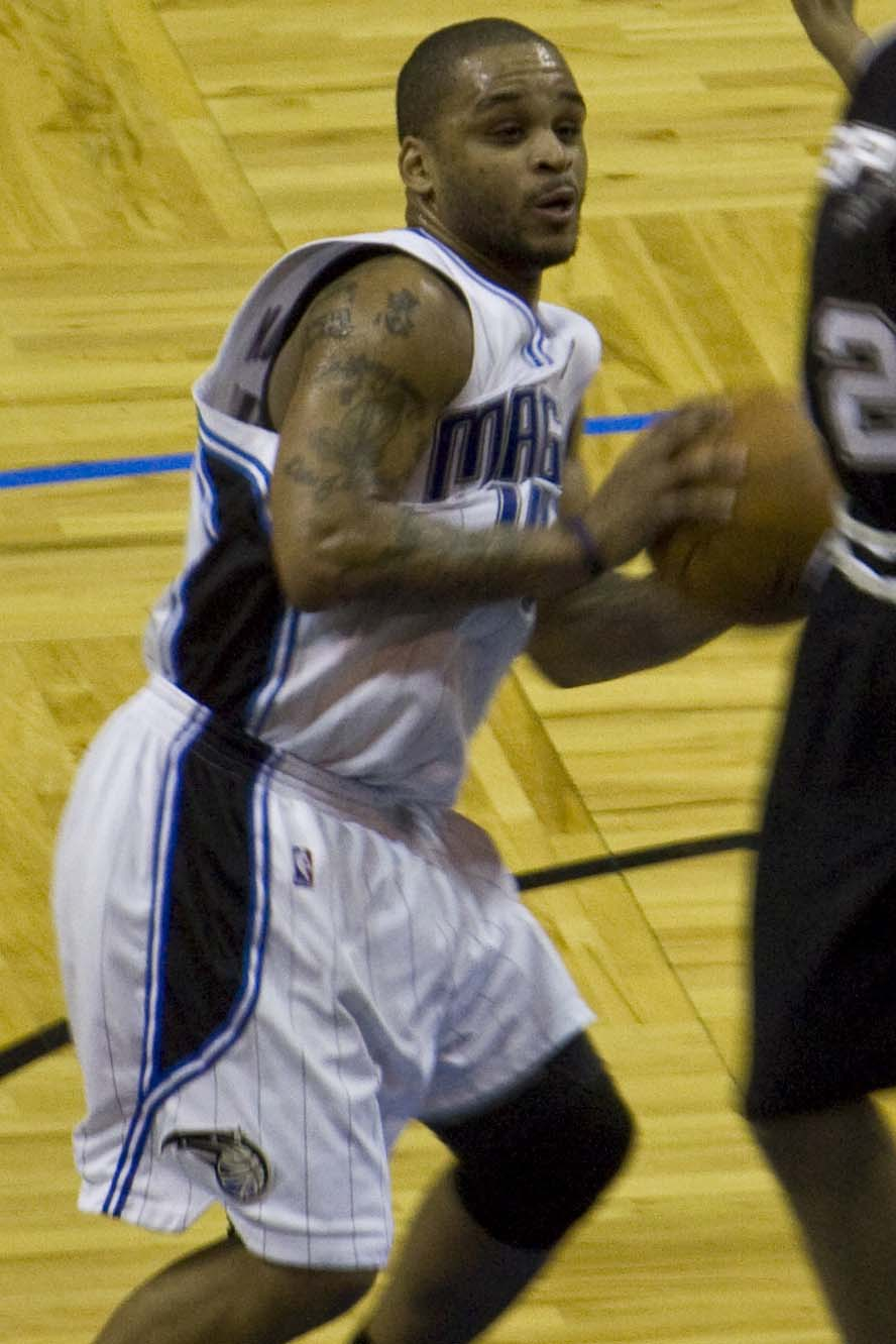 Jameer Nelson vs San Antonio Spurs.